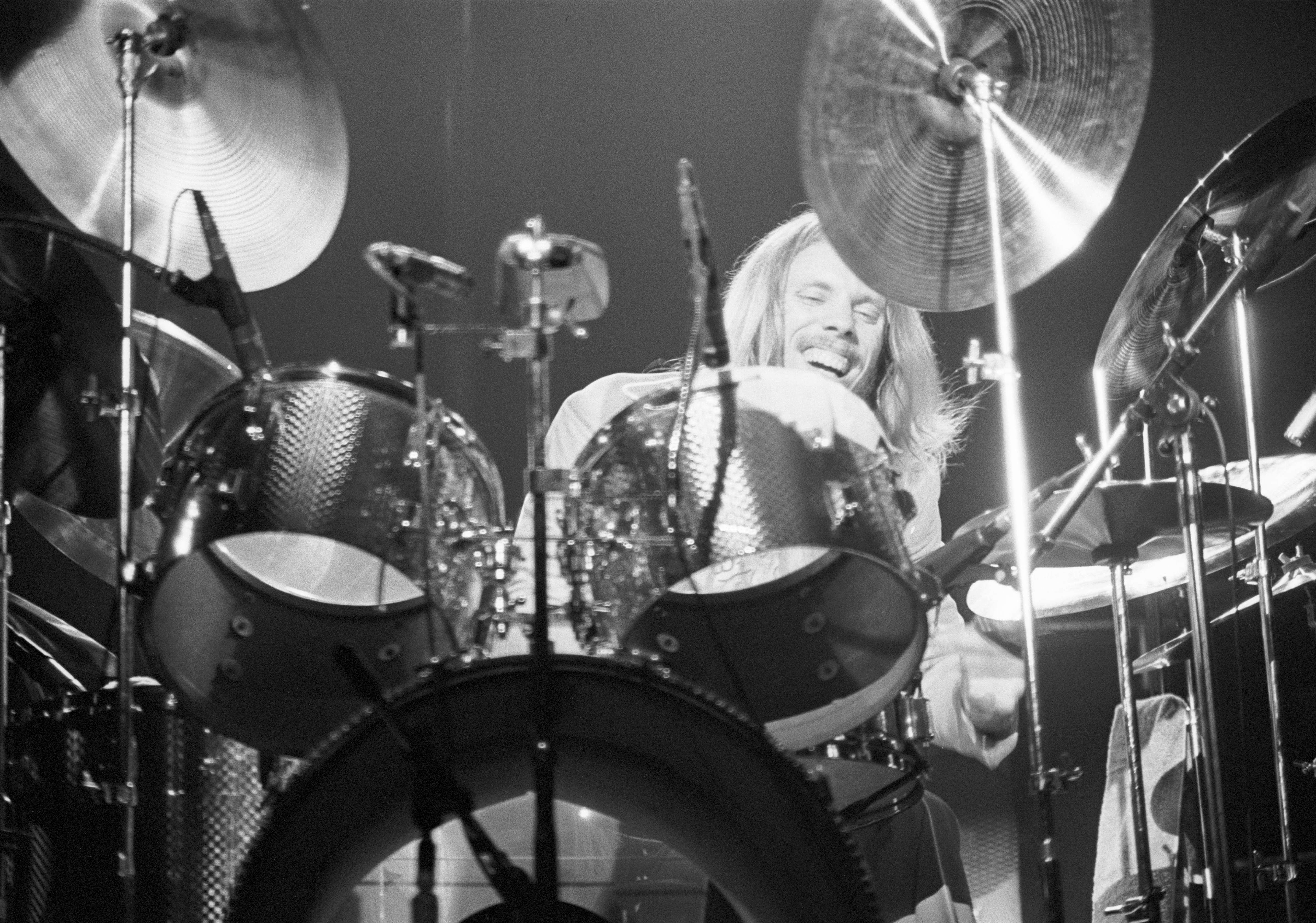 Bill Lordan on drums with The Robin Trower Band at Madison Square Garden on 3-24-1976